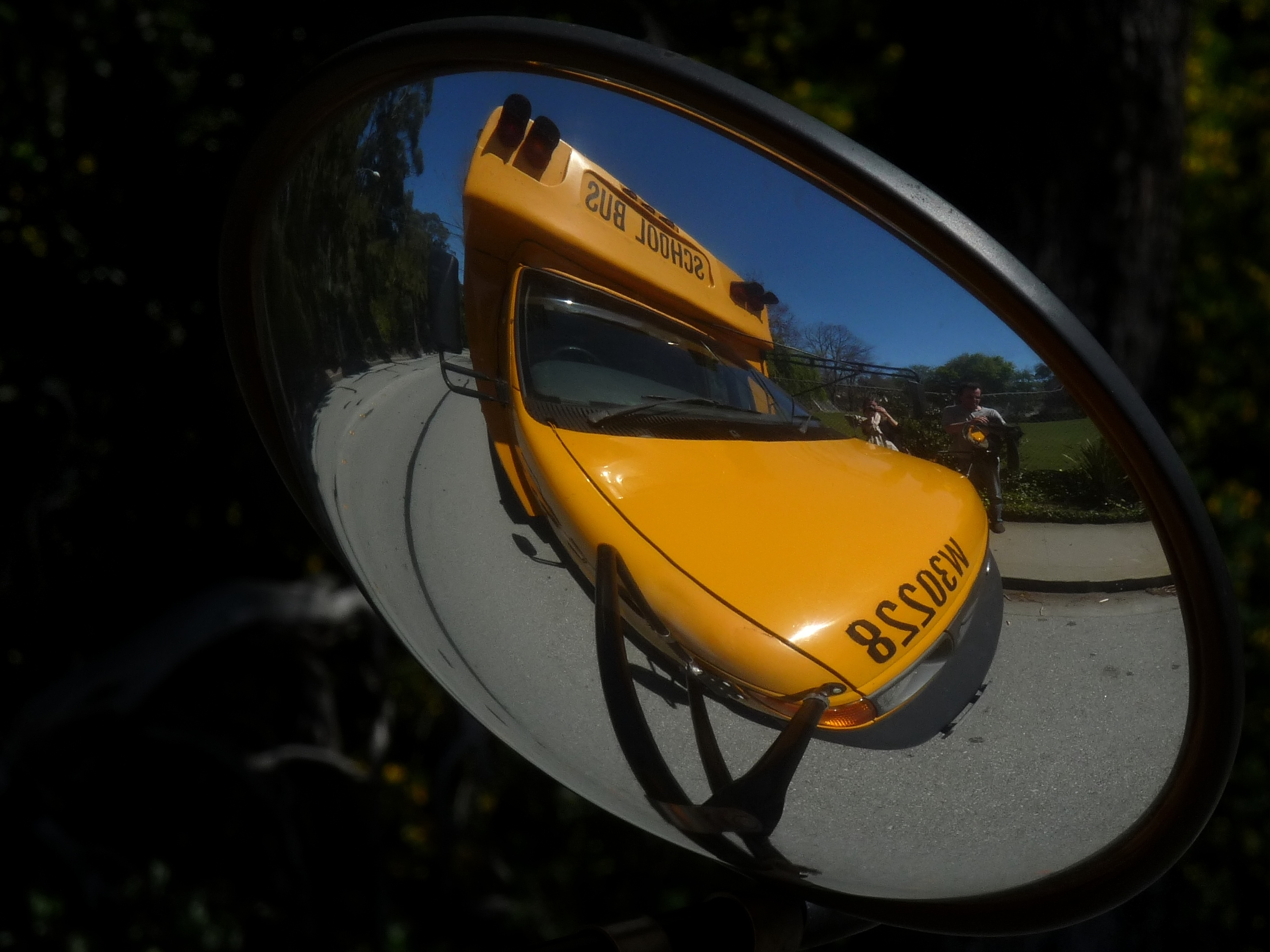 Photograph of a school bus cross-view mirror As reflected in the school vehicle's side mirror.